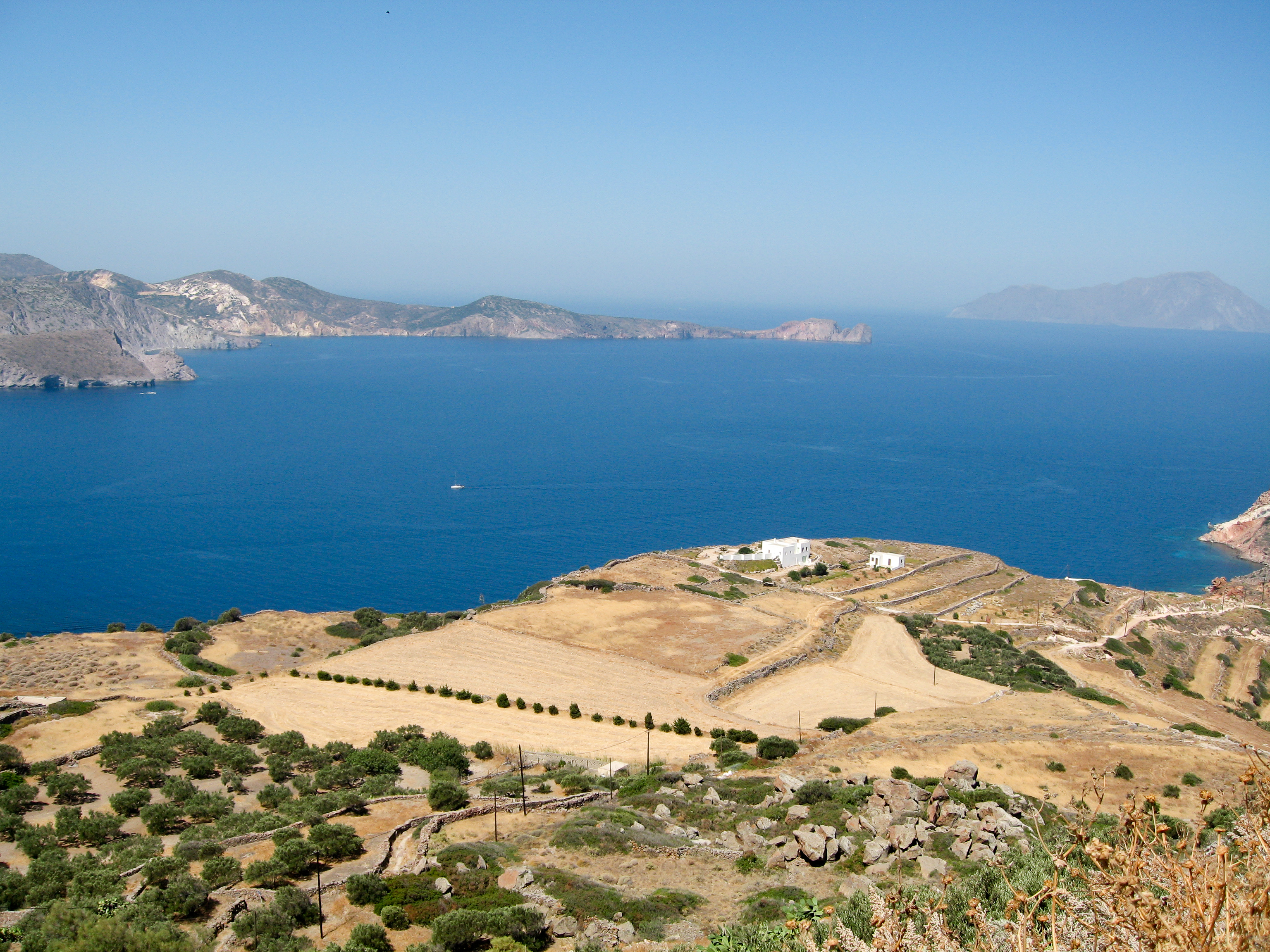 Milos Island, Greece